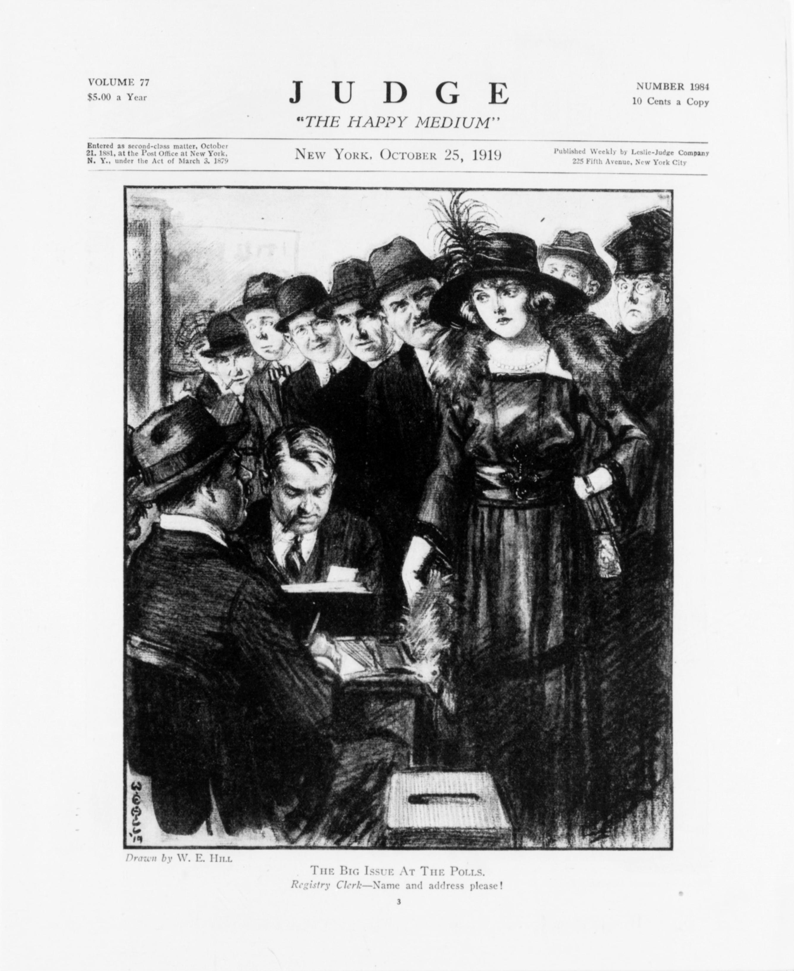 Judge Magazine Cover (25 Oct 1919)